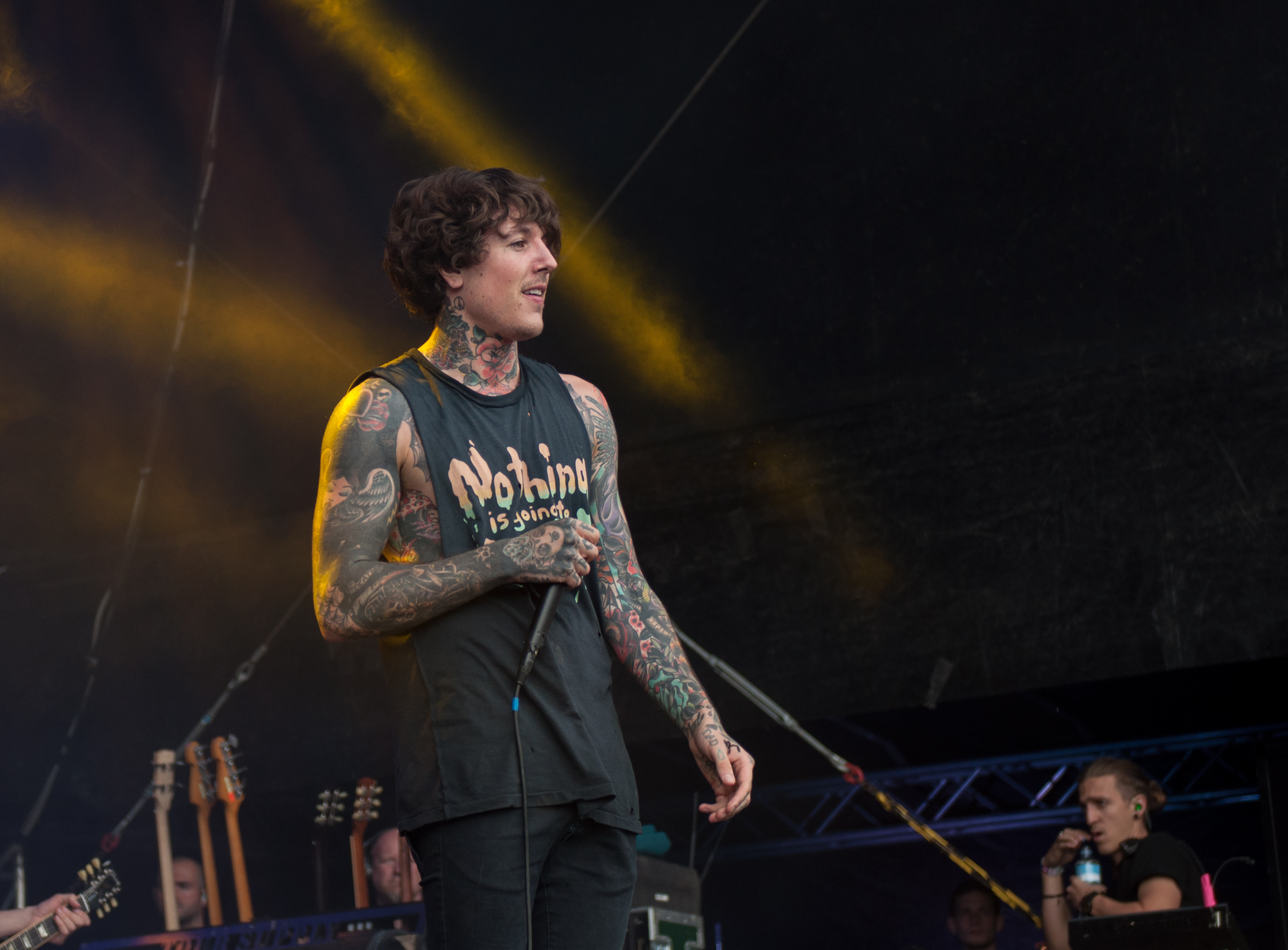 Bring Me the Horizon at Vainstream Rockfest 2014